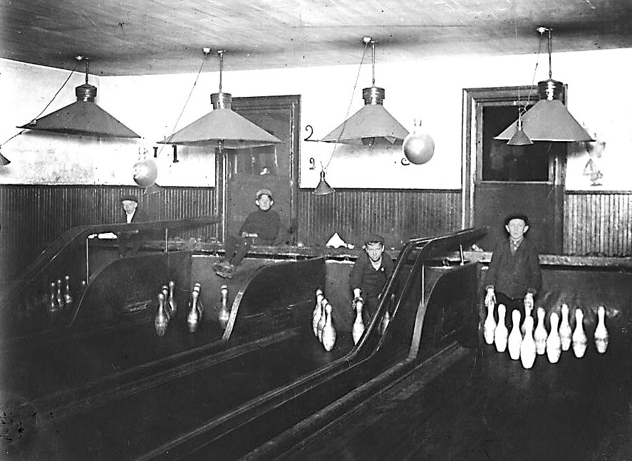 Pin setter boys at a Pittsburgh bowling alley